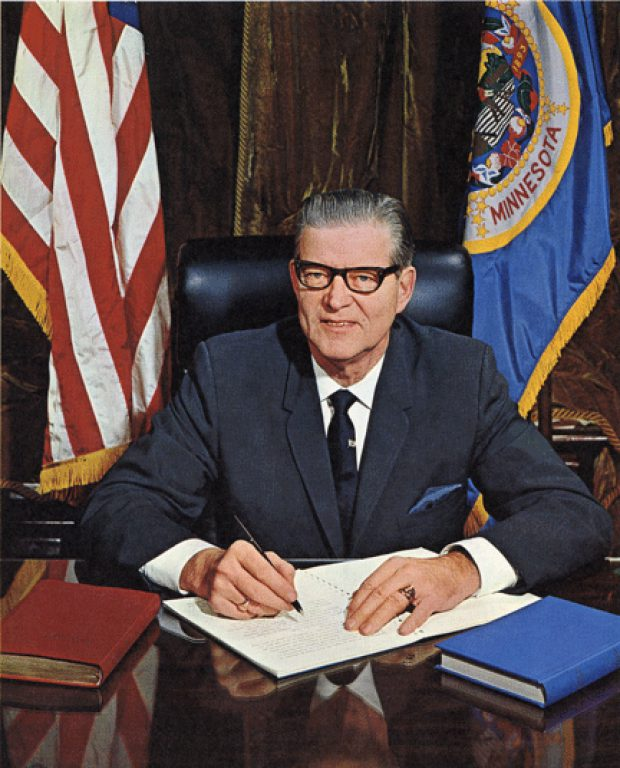 Creative Commons Zero (CCO) This work has been dedicated by the rights holder to the public domain. It is not protected by copyright and may be reproduced and distributed freely without permission. The author of this work is the State of Minnesota. It publishes a biannual legislative manual with details of elected officials as well as other information about the state.